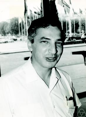 Photo of Walter Feit